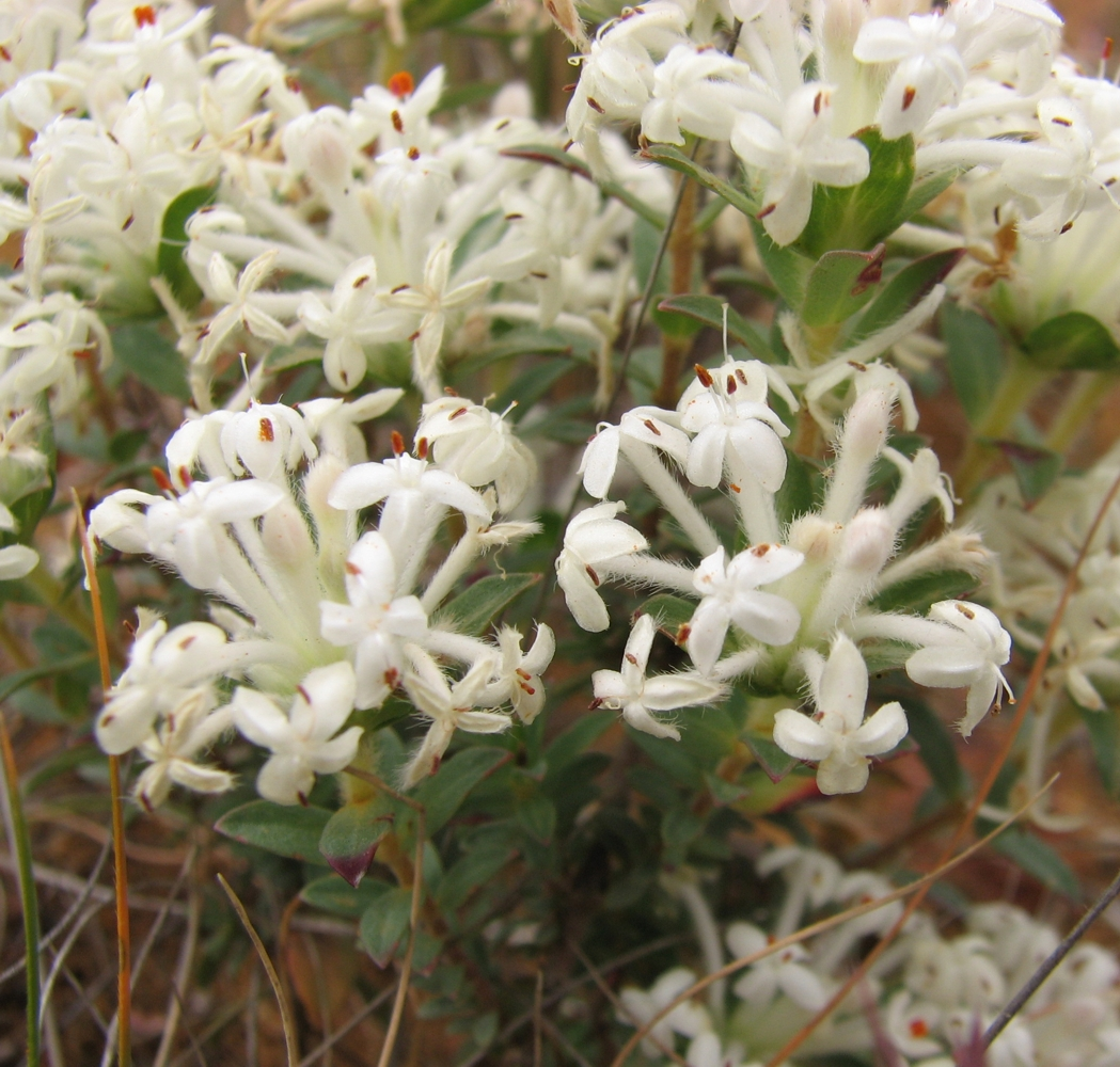 Pimelea humilis, Illabarook Grasslands, Victoria, Australia